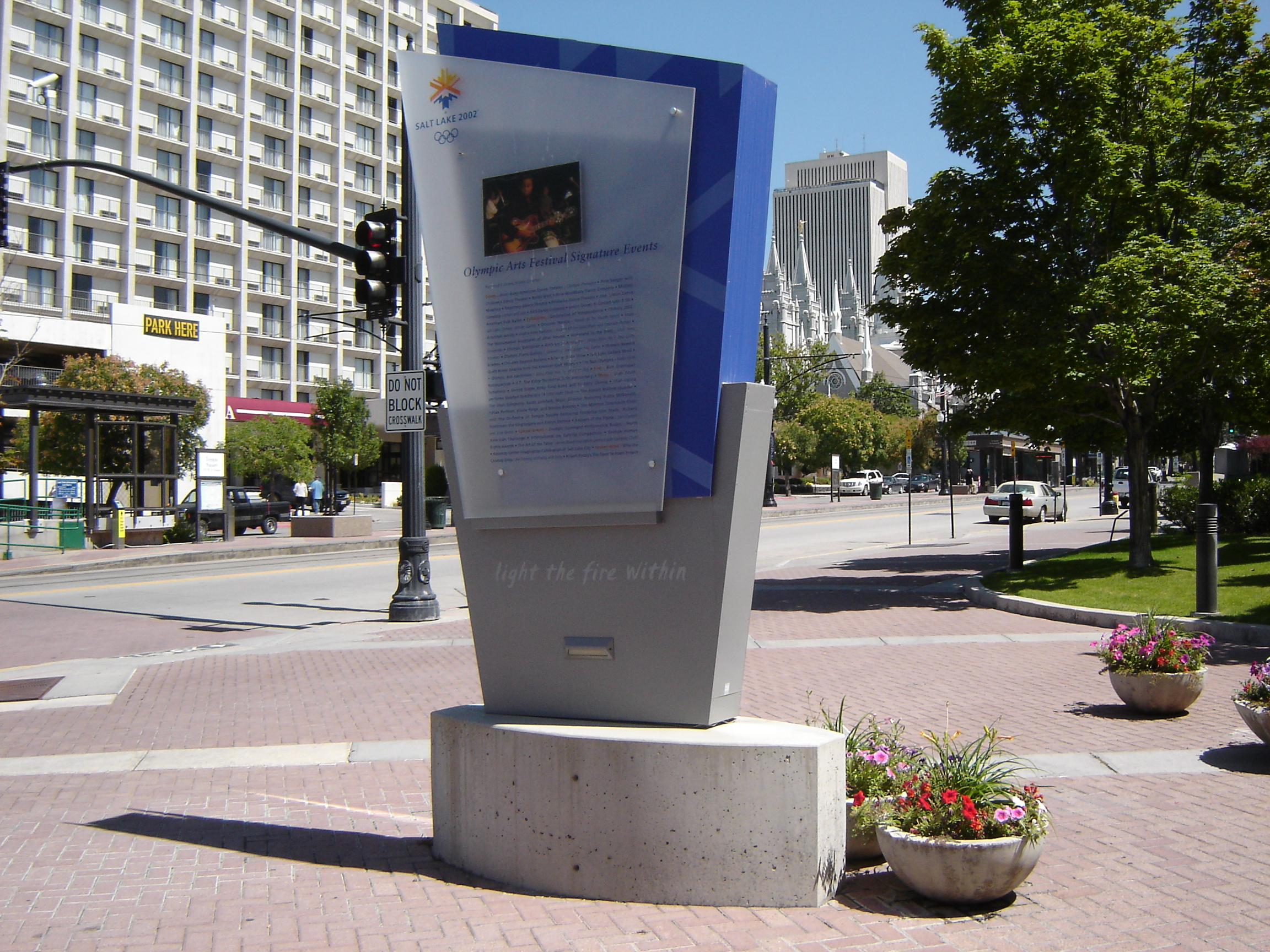 Sign Board 2002 Olympic Salt Lake UT